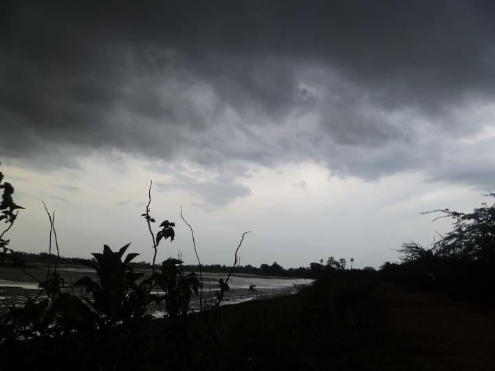 Vedal lake during monsoon season